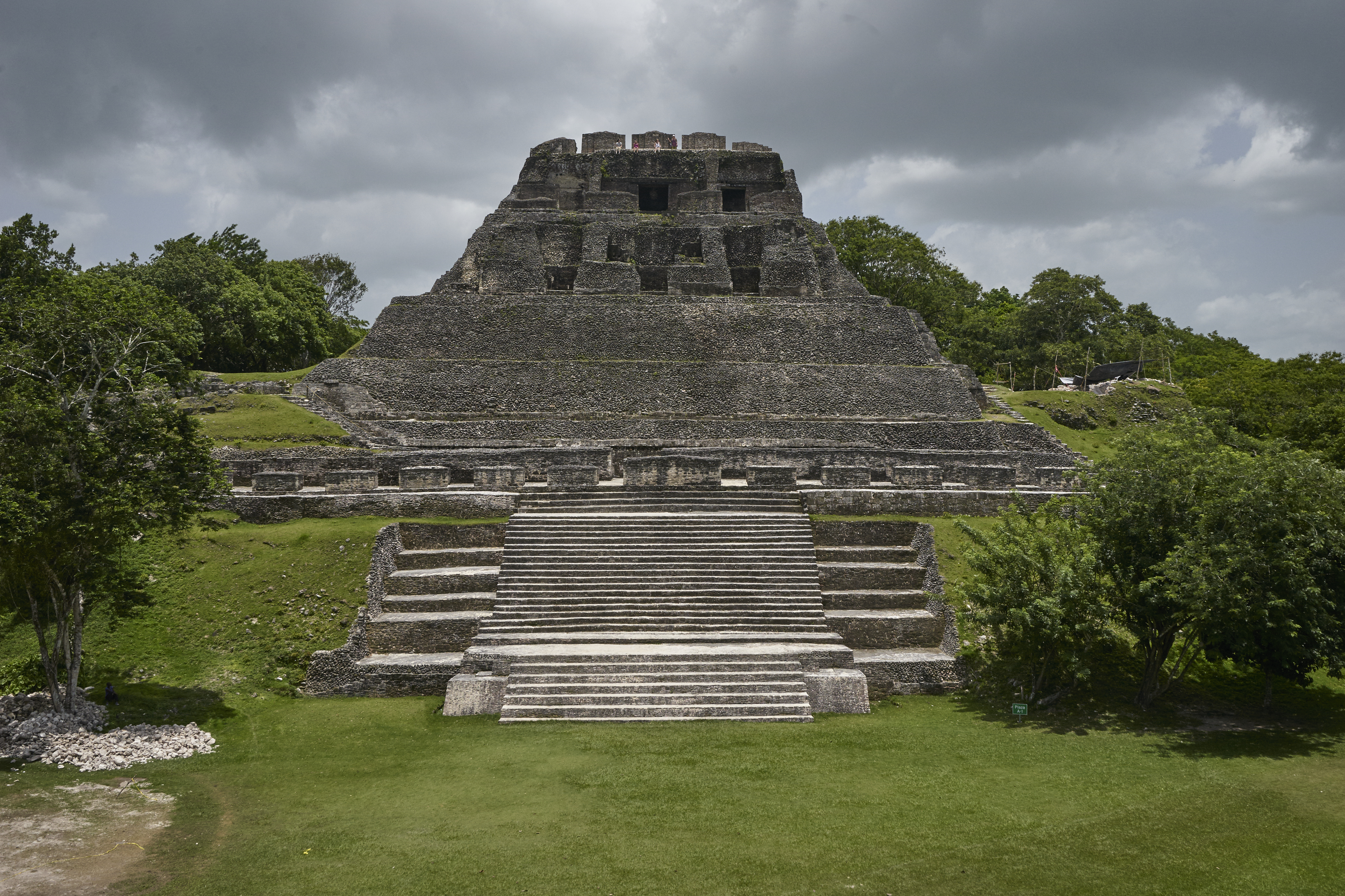 El Castillo seen from the top of Structure A-1 at Xunantunich Archaelogical site, Belize The making of this document was supported by the Community-Budget of Wikimedia Germany.